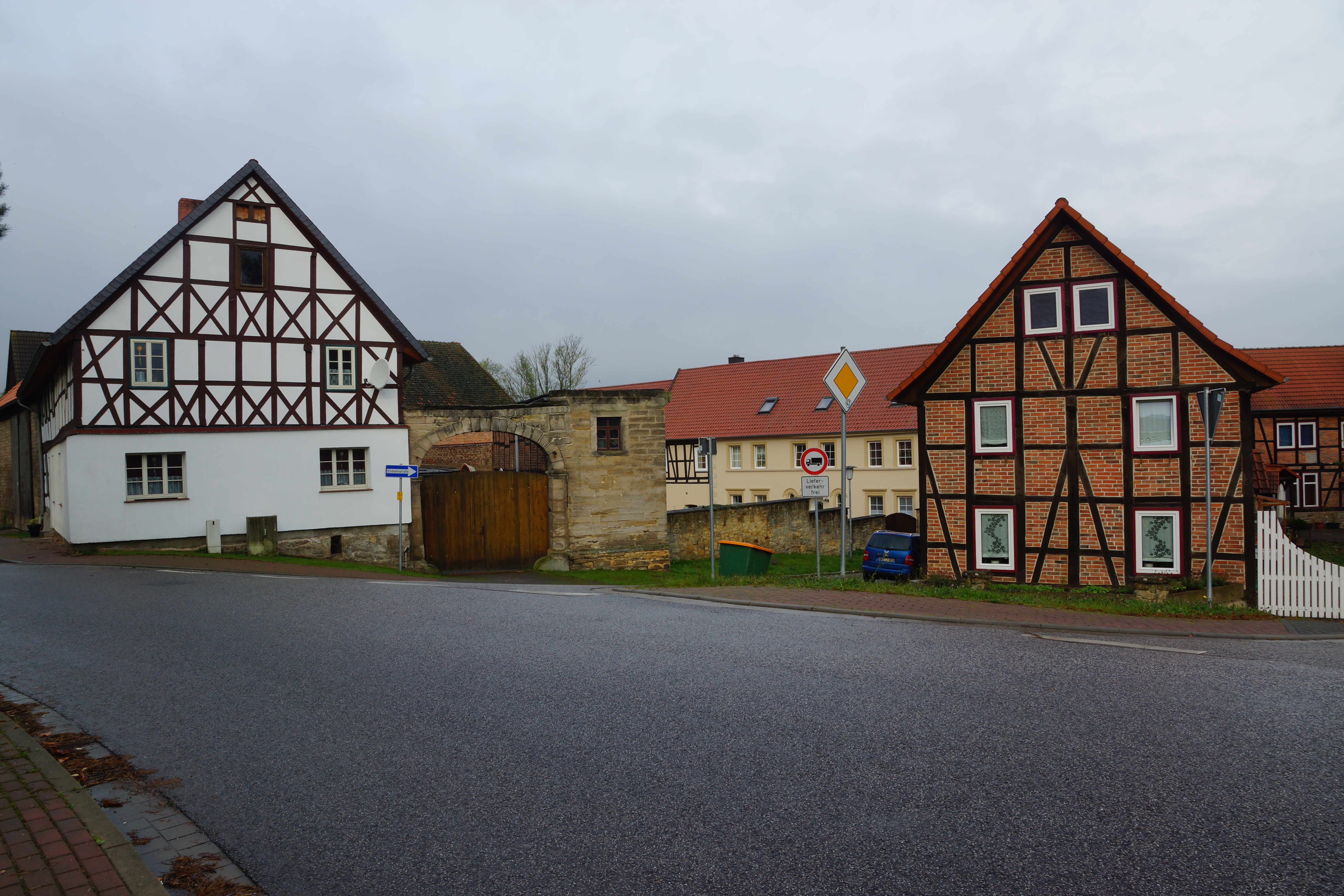 Beendorf, Germany: Timber frame houses in the Mittelstrasse